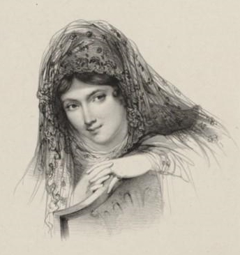 French opera singer Maria Malibran (1808-1836). Lithograph by William Sharp (1803-1875) after a drawing by John Hayter (1800-1891).